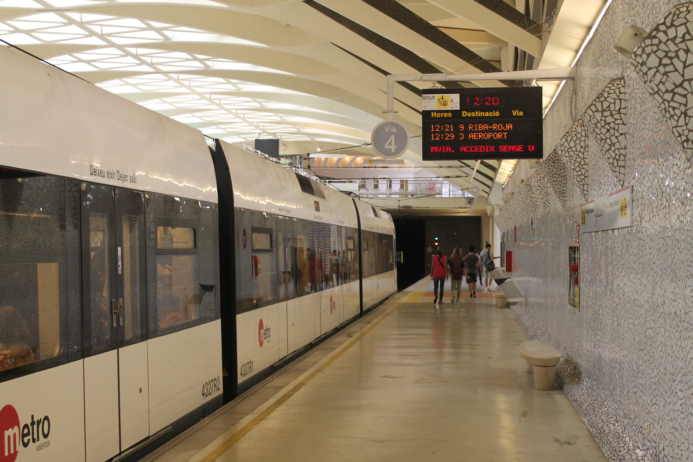 Platform of the Alameda station of Metrovalencia.